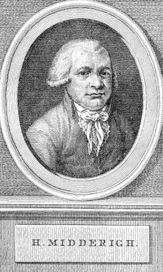 Portrait of Henricus Midderigh (1753-1800), Dutch politician